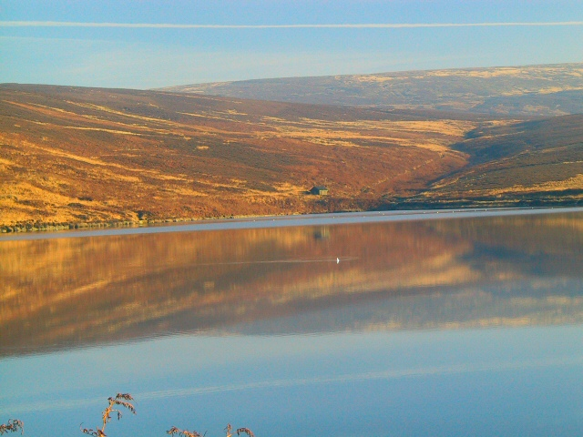 Upper Swineshaw Reflections. Just a light breeze ruffling the surface of the reservoir ripples its mirror-like quality on this bright, but chilly, November morning.